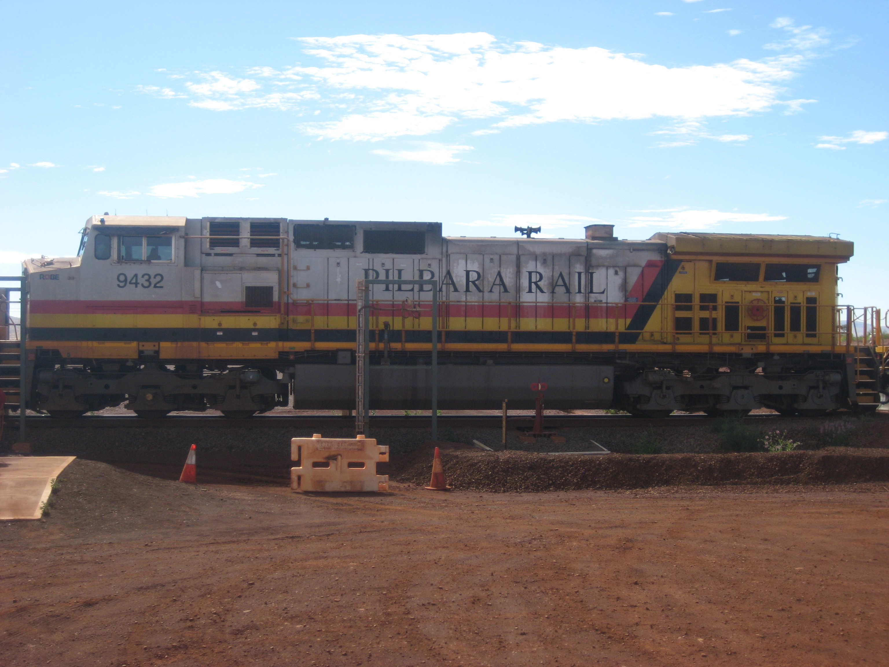 An iron ore train loading at the Brockman 4 mine, Western Australia.